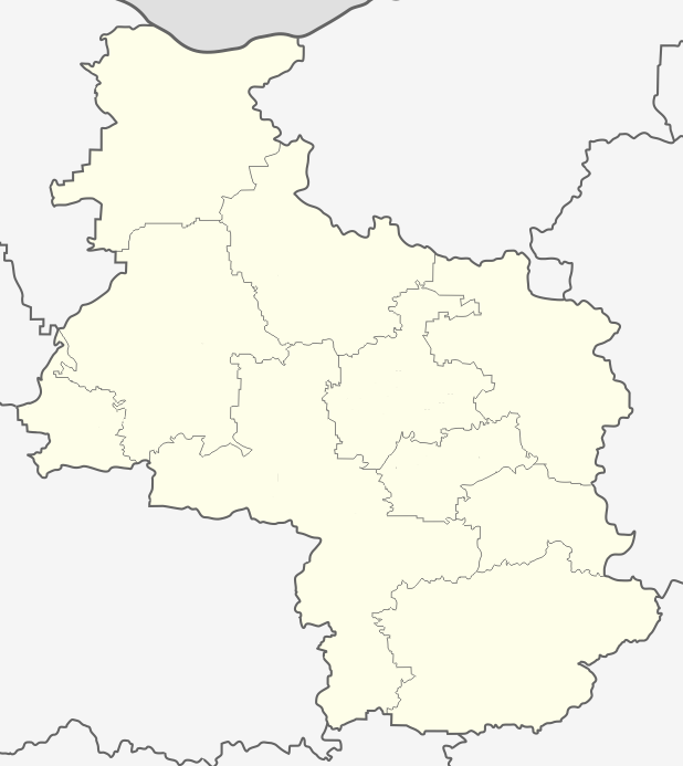 Blank map of VelikoTarnovo Province, Bulgaria.